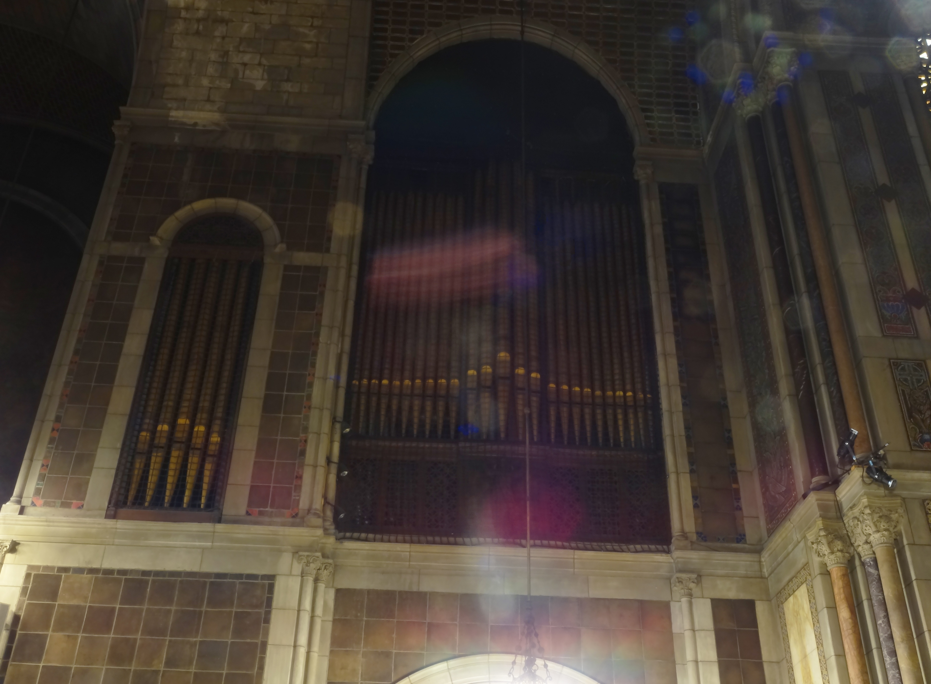 Northern Chancel Organ at St. Bartholomew's (NYC Park Avenue) by Aeolian-Skinner